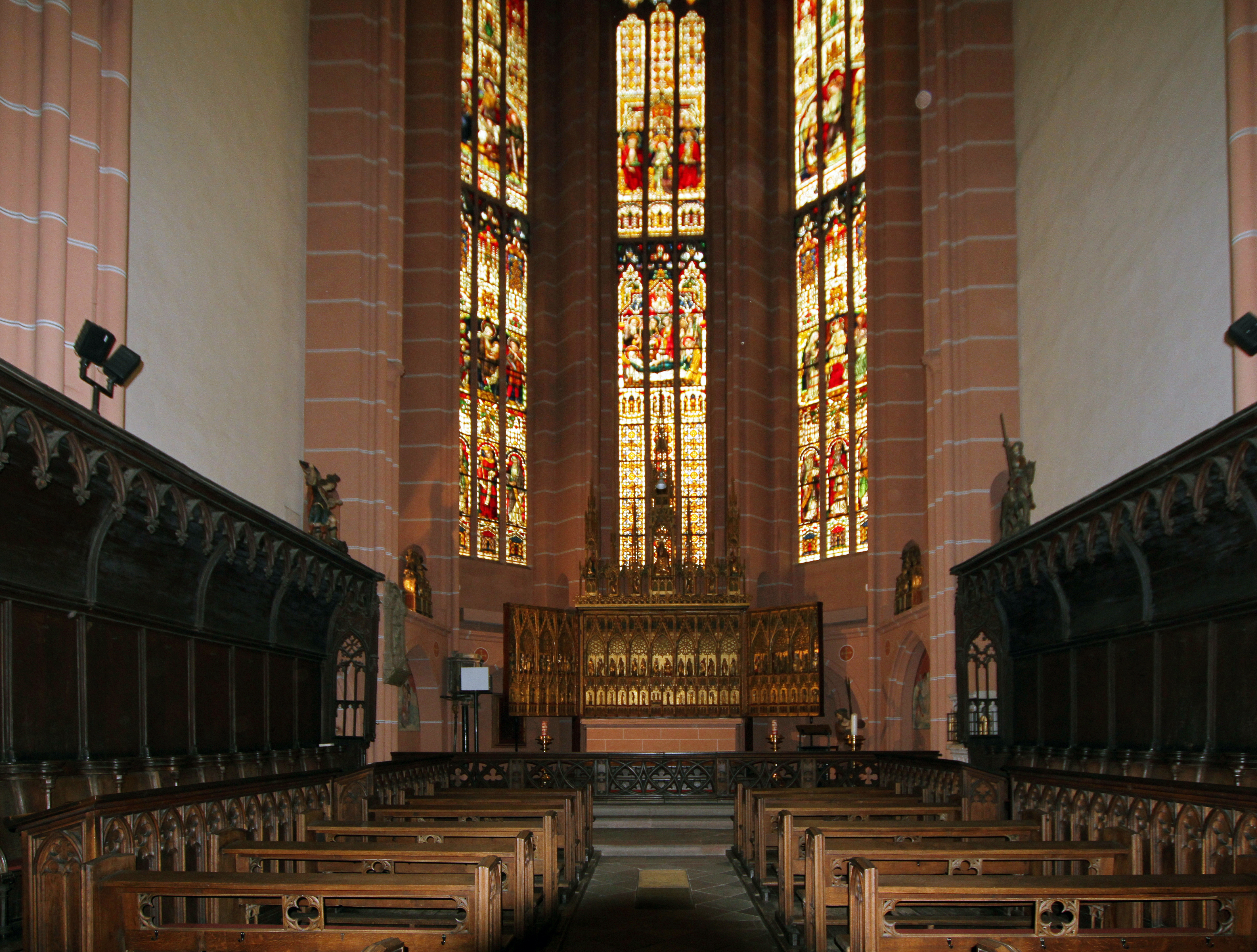 Interior of the old Catholic Parish Church Our Lady in Oberwesel, Germany